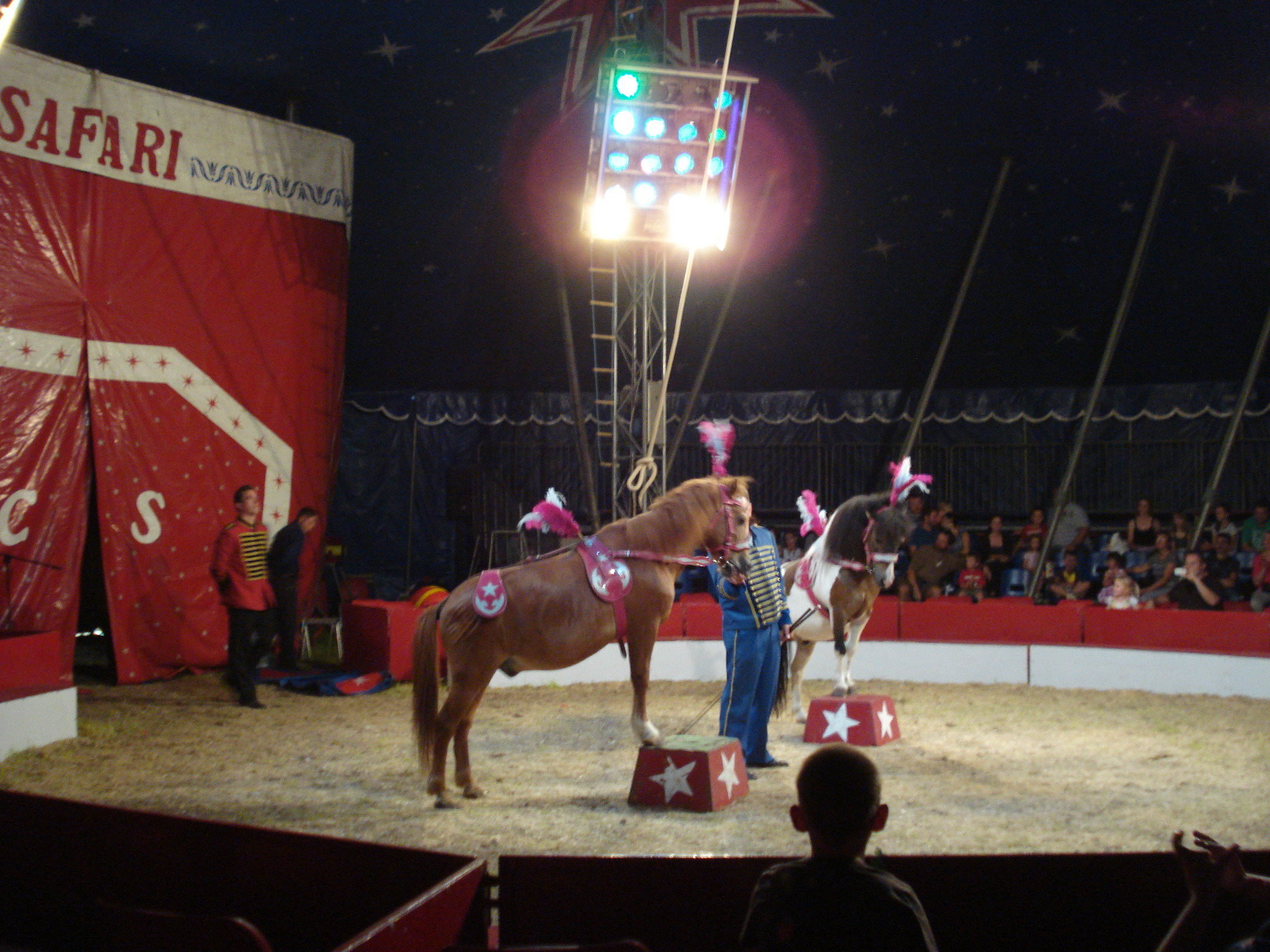 Austrian circus "Safari" in Čakovec, Croatia - horsesHrvatski: Austrijski cirkus "Safari" u Čakovcu, Hrvatska - konji